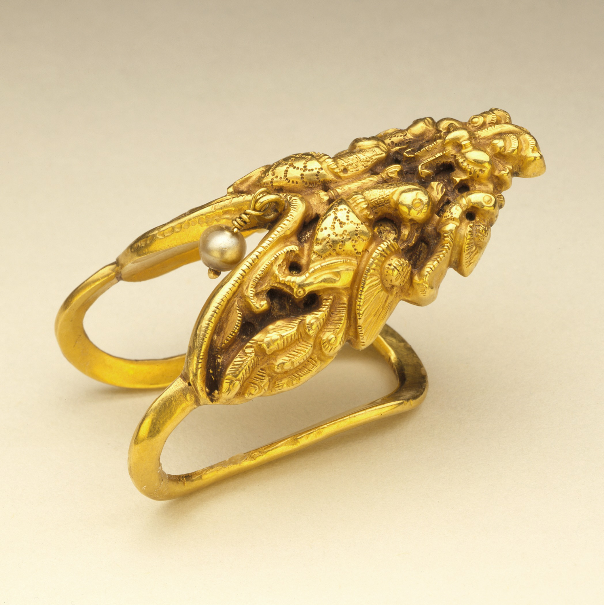 India, Tamil Nadu, early 19th century Jewelry and Adornments; rings Gold with pendant pearl 1 3/4 x 1 in. (4.45 x 2.54 cm) Purchased with funds provided by Harry and Yvonne Lenart (AC1994.175.1) South and Southeast Asian Art Currently on public view: Ahmanson Building, floor 4